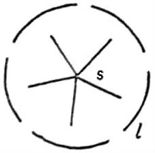 Diagram to illustrate septifragal dehiscence, in which the dehiscence takes place through the back of the loculaments l, and the valves separate from the septa s, which are left attached to the placentas in the centre.